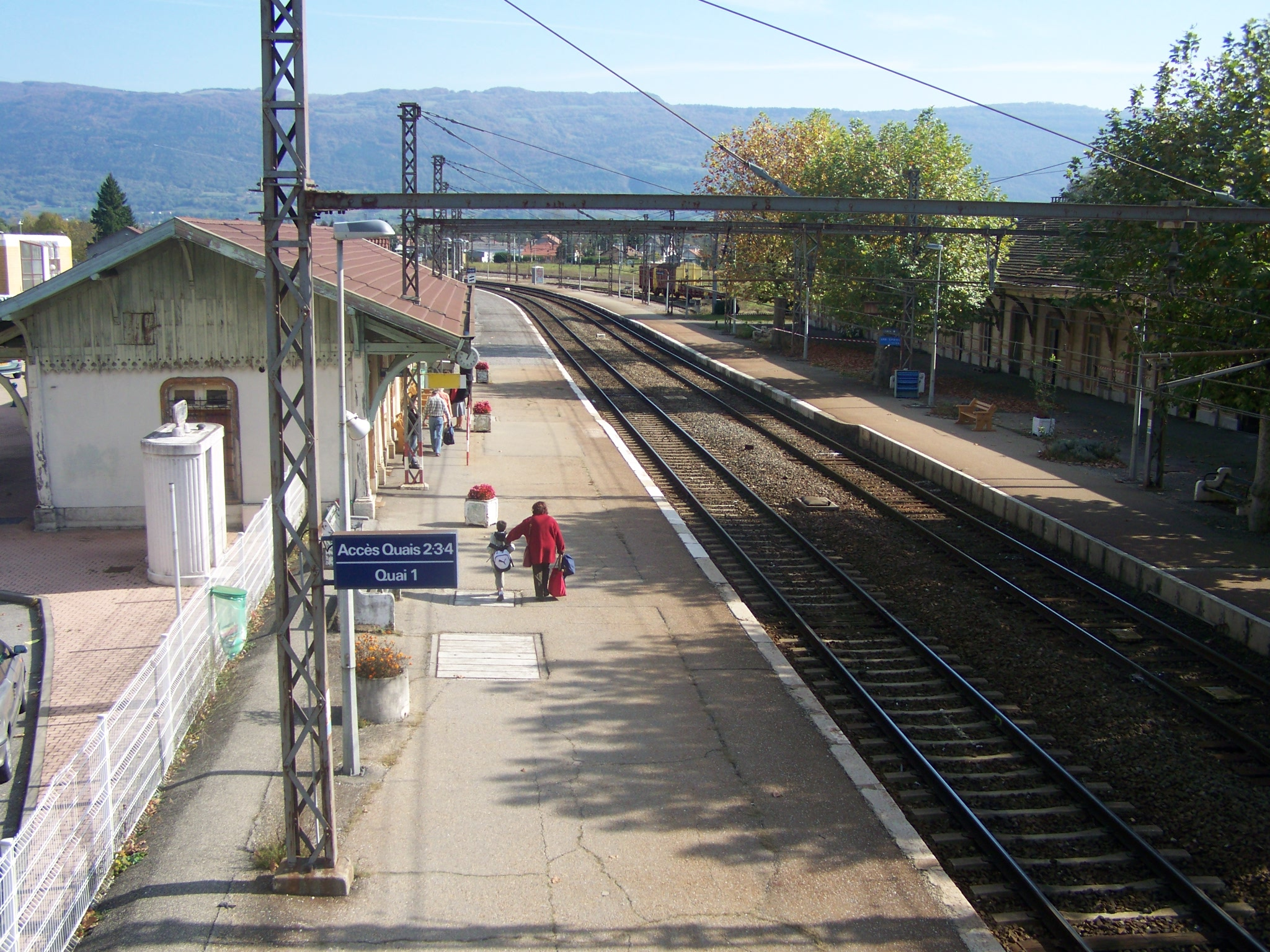 View on the platforms 1 and 2 of Culoz railway station, in Ain, France. This line leads to Geneva in Switzerland.